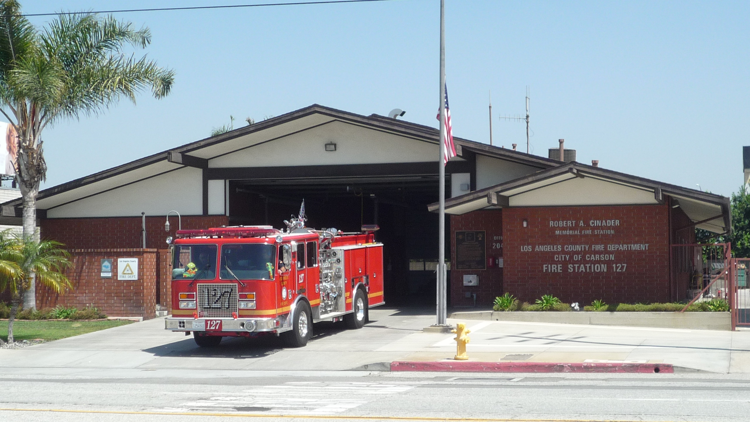 The Robert A. Cinader Memorial Fire Station being Los Angeles County Fire Department Fire Station 127, 2049 East 223rd Street, Carson, California, 90810-1061. It appears as Fire Station 51 in the American television series Emergency!. The flag is flying at half mast in memory of the Aurora shooting which had happened a week earlier. Page on LAFCD website. Three more photos.